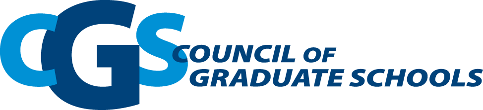 The official Council of Graduate Schools logo.